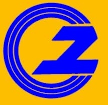 Yugawa Fukushima chapter